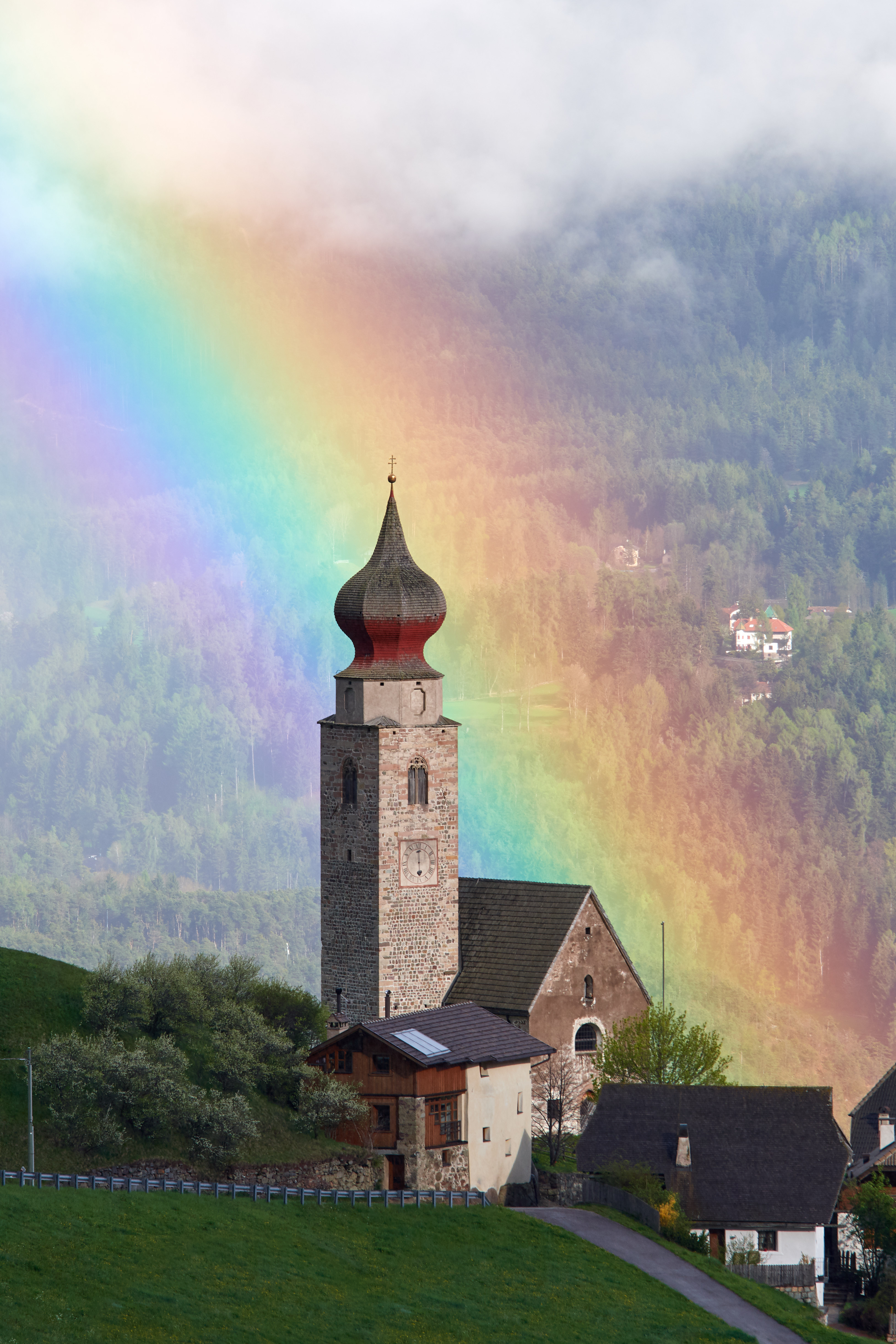 The picture shows the St. Nikolaus Church in Mittelberg on the Ritten plateau, just before a huge thunderstorm. My first images had the strong rainbow, but with the church still in the shadow, but luckily the sky opened a bit further, placing the church in the limelight.